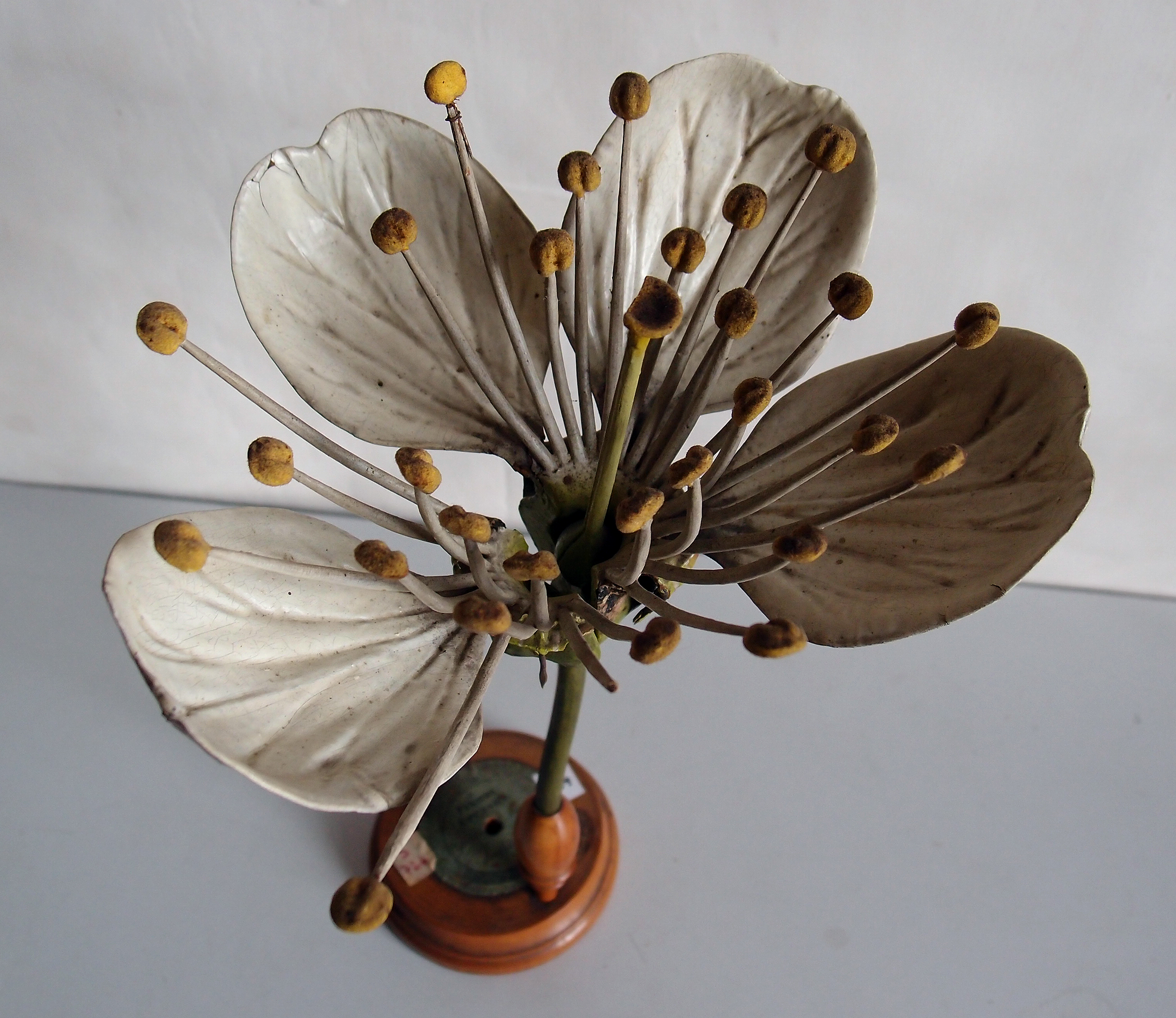 Model from the collection of the Botanical Museum in Greifswald, Germany. . see also for more information on the models